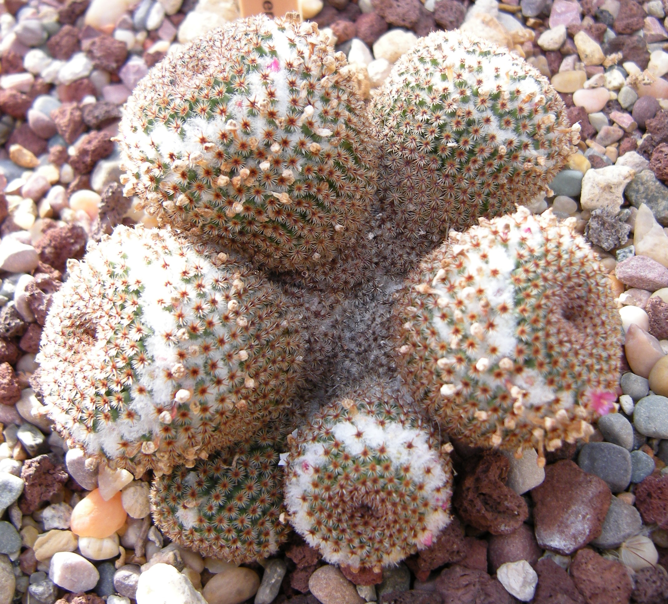 Mammillaria crucigera. Photographed at Volunteer Park Conservatory, Seattle, Washington.